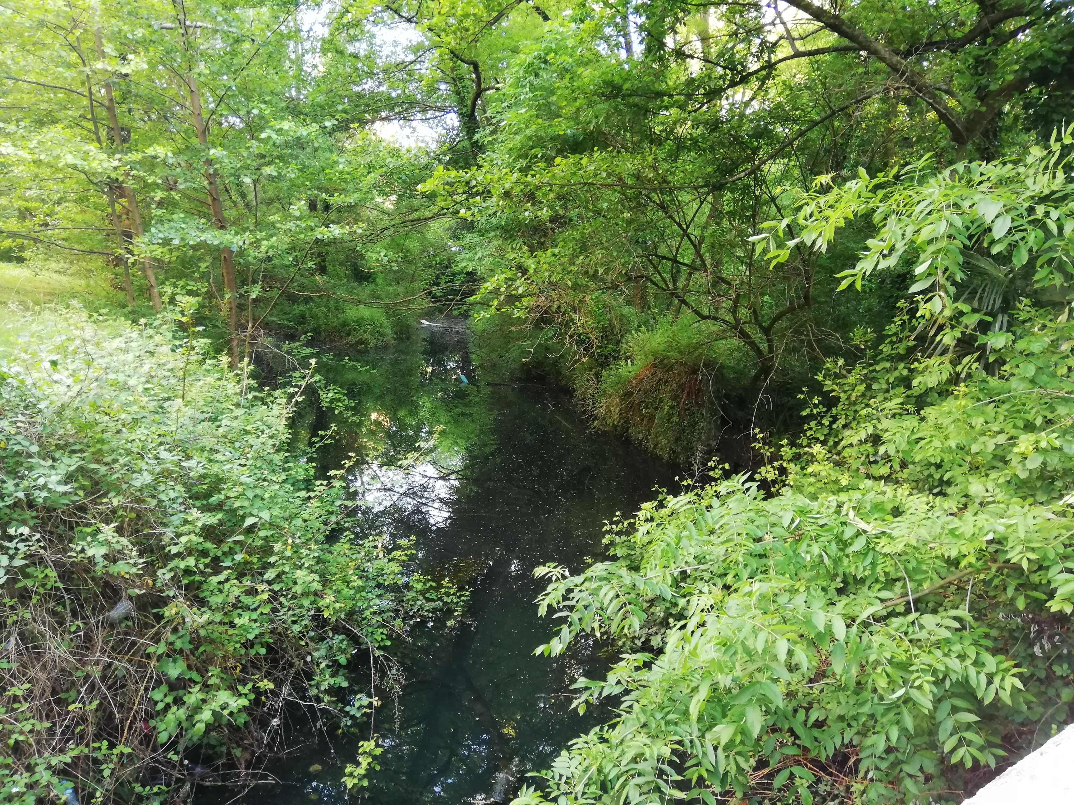 ibaeta wetlands